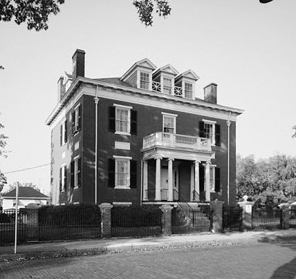 Wills-Davis-Glass House (Lynchburg, Virginia) (cropped)